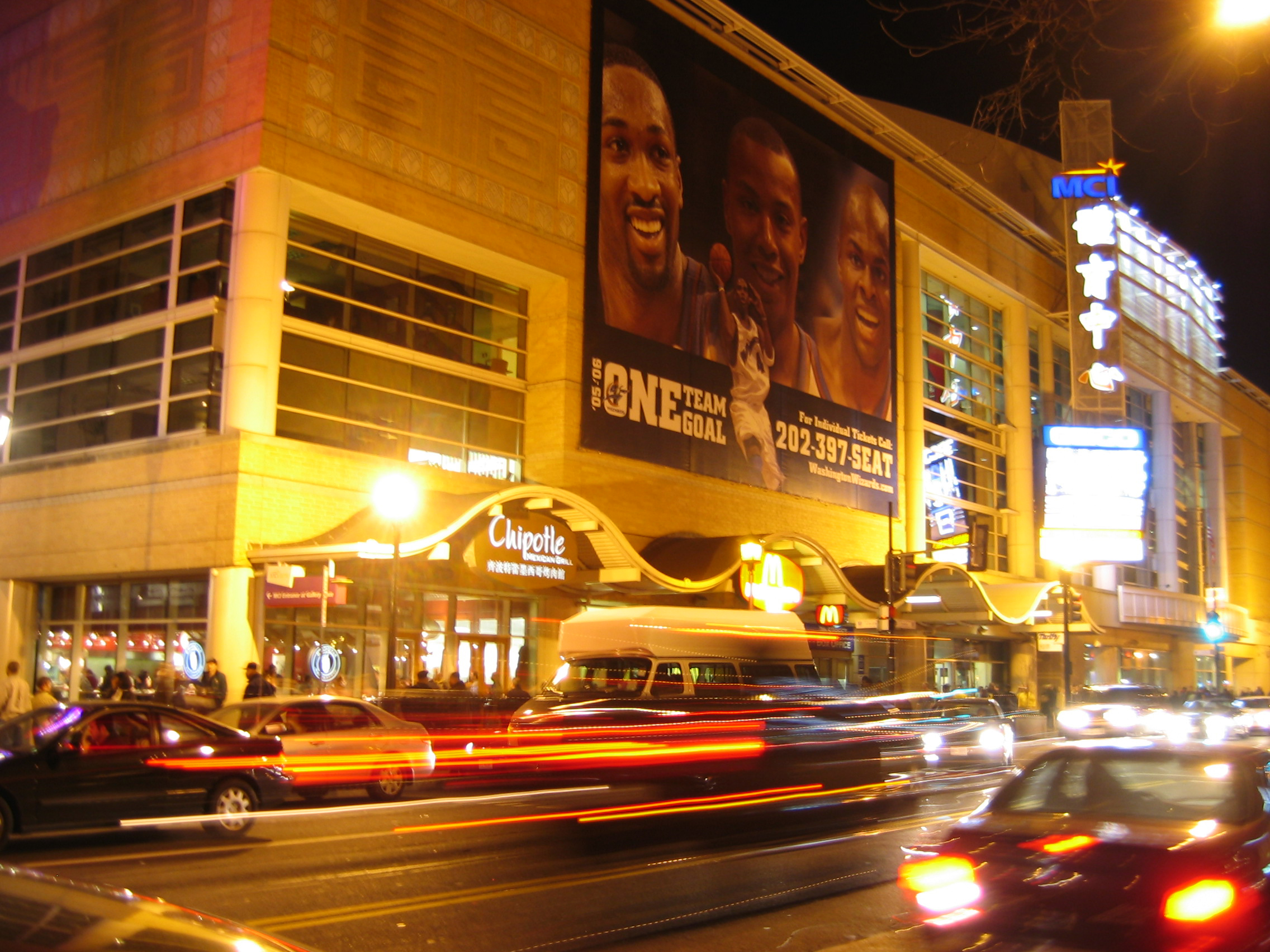 MCI Center on game night (Washington Wizards vs. New Orleans Hornets), January 20, 2006.